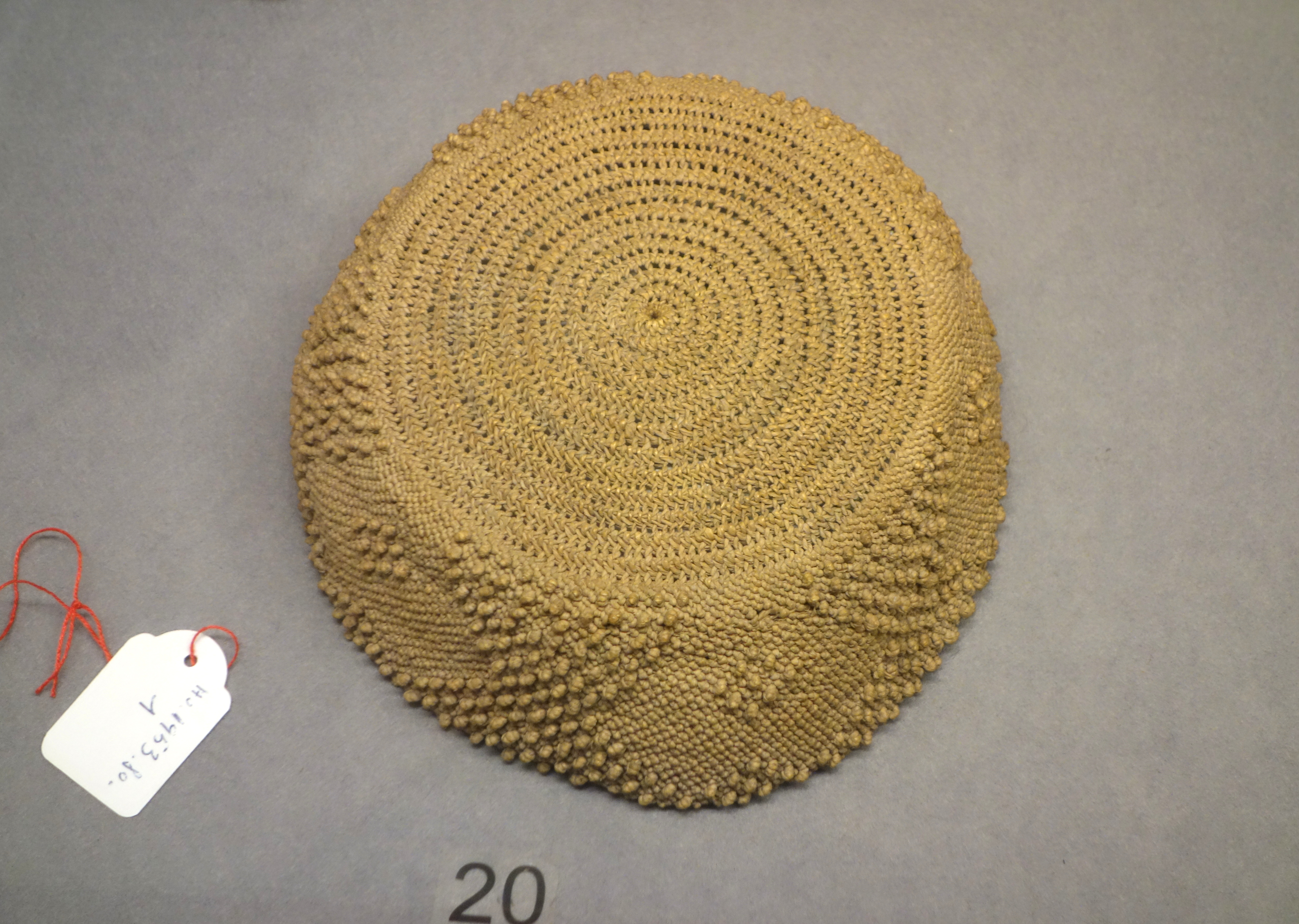 Exhibit in the Royal Museum for Central Africa, Tervuren, Belgium. This object is old enough so that it is in the public domain.